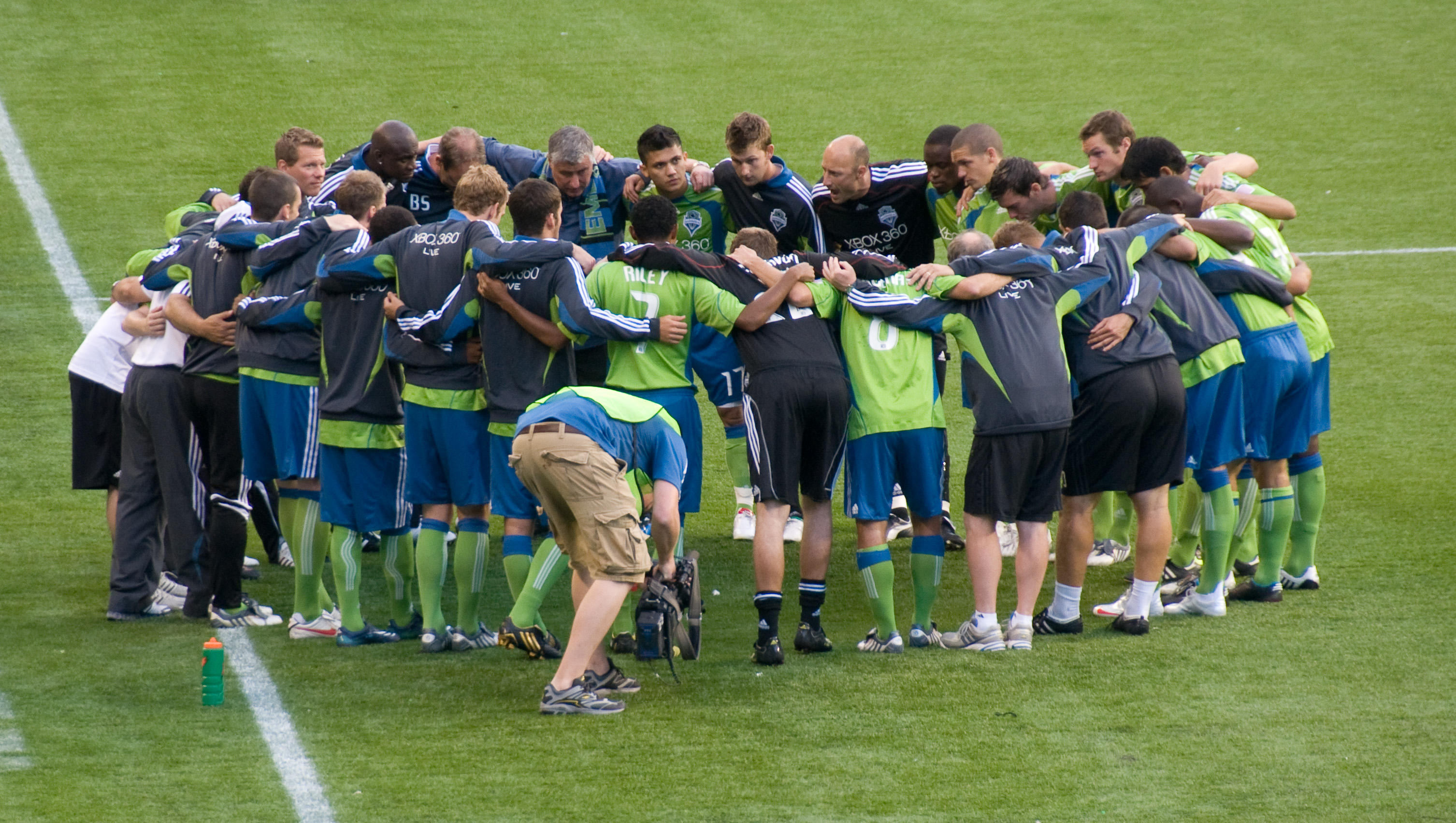 A Seattle Sounders pre-match huddle in August 2009 at Qwest Field.